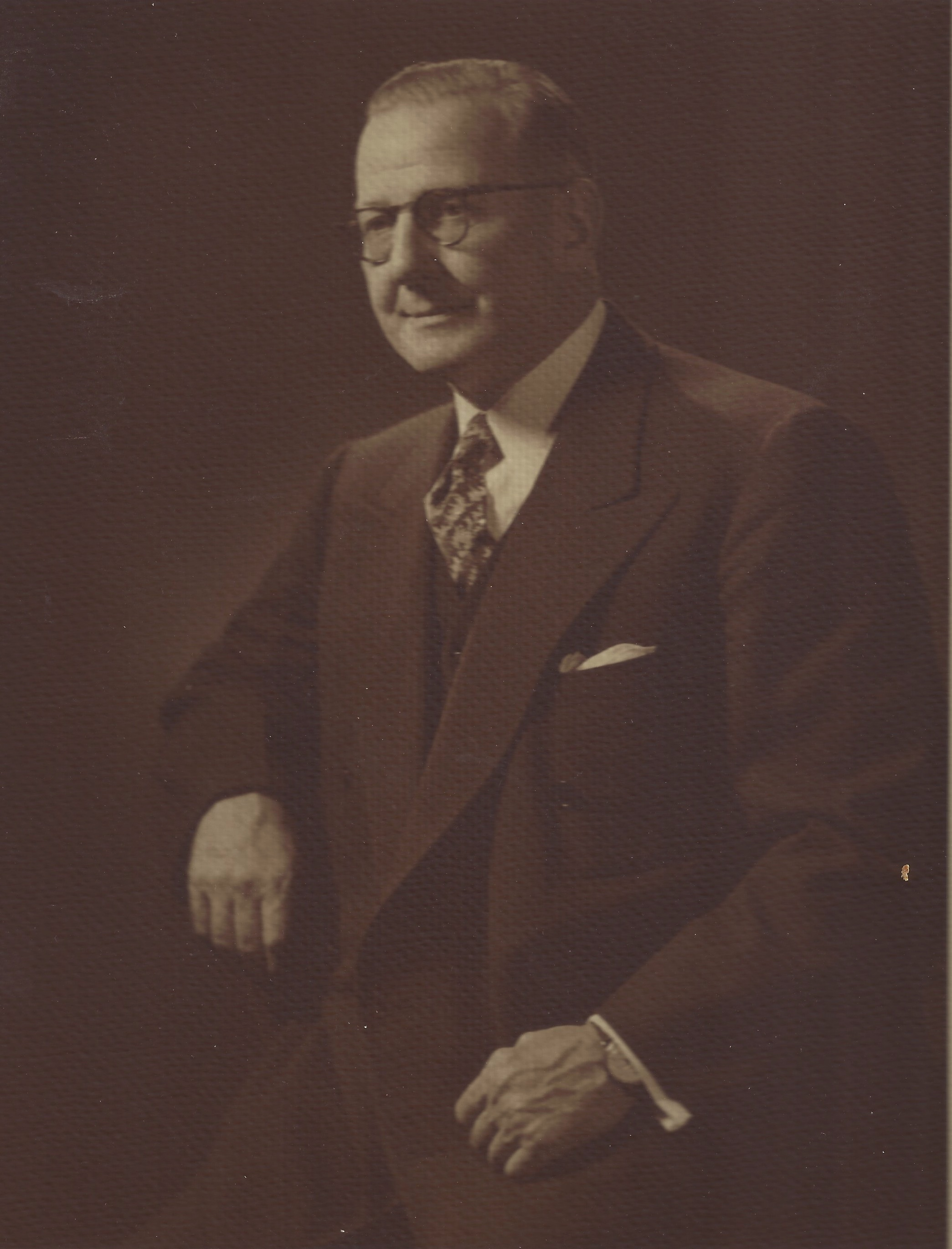 Willard Francis Jones portrait